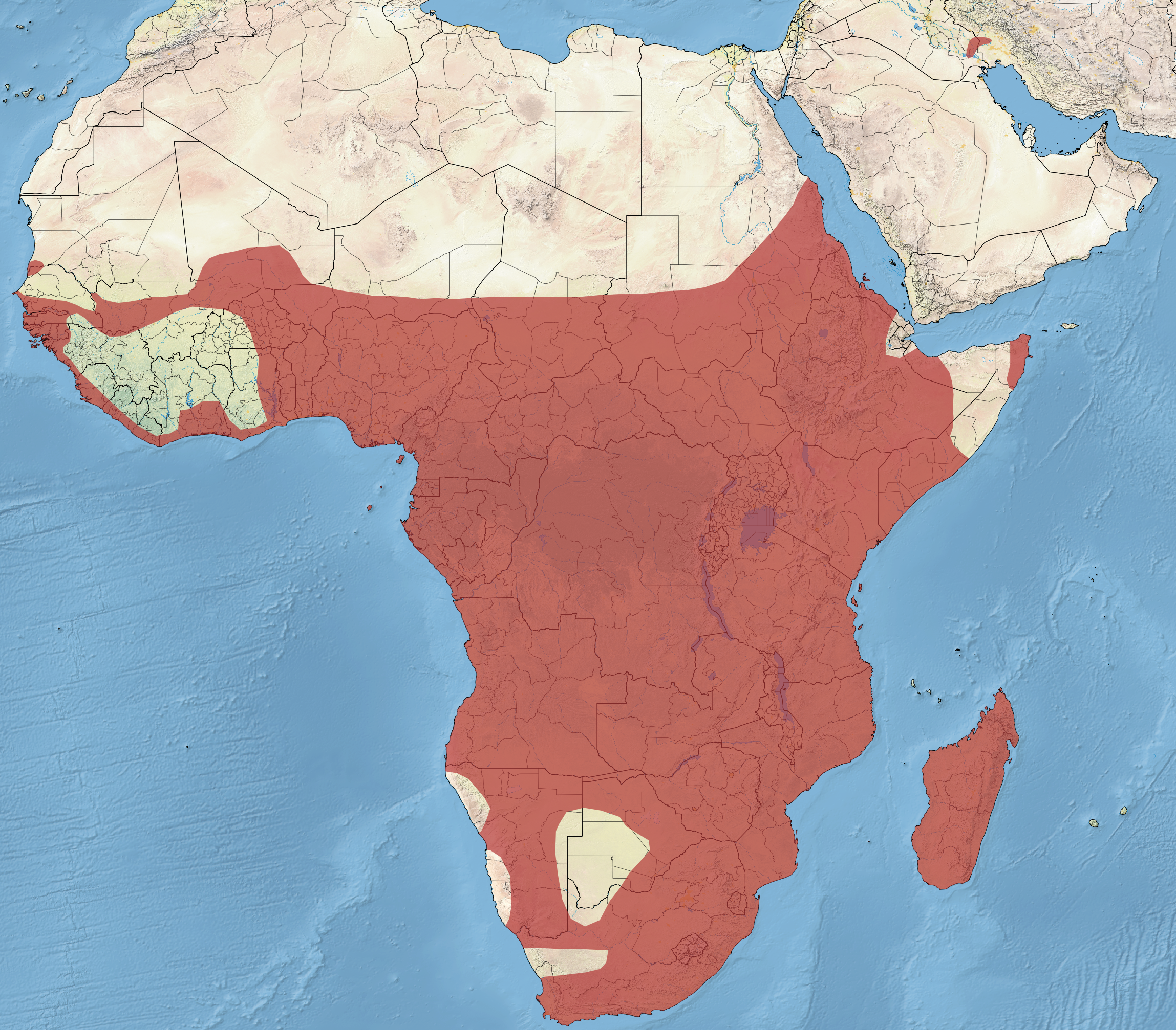 The approximate distribution of the African Darter, according to the IUCN Red List.